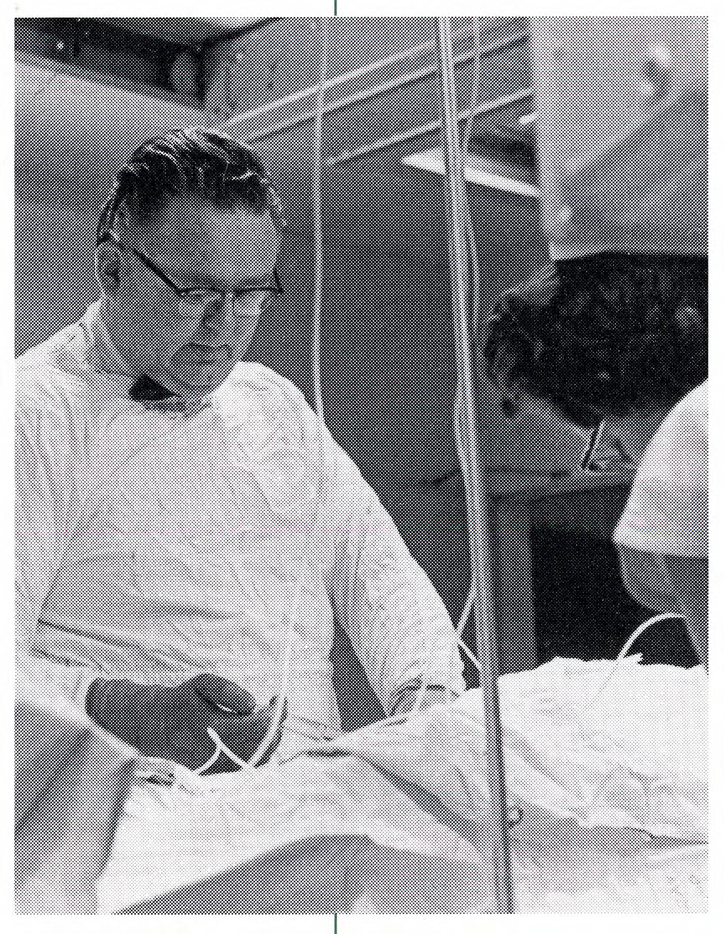 Black and white photograph of Melvin Judkins, M.D., performing a catheterization procedure with the aid of a female nurse.